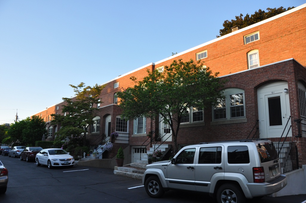 Back side of a row house in the District C historic mill housing district of Manchester, New Hampshire.